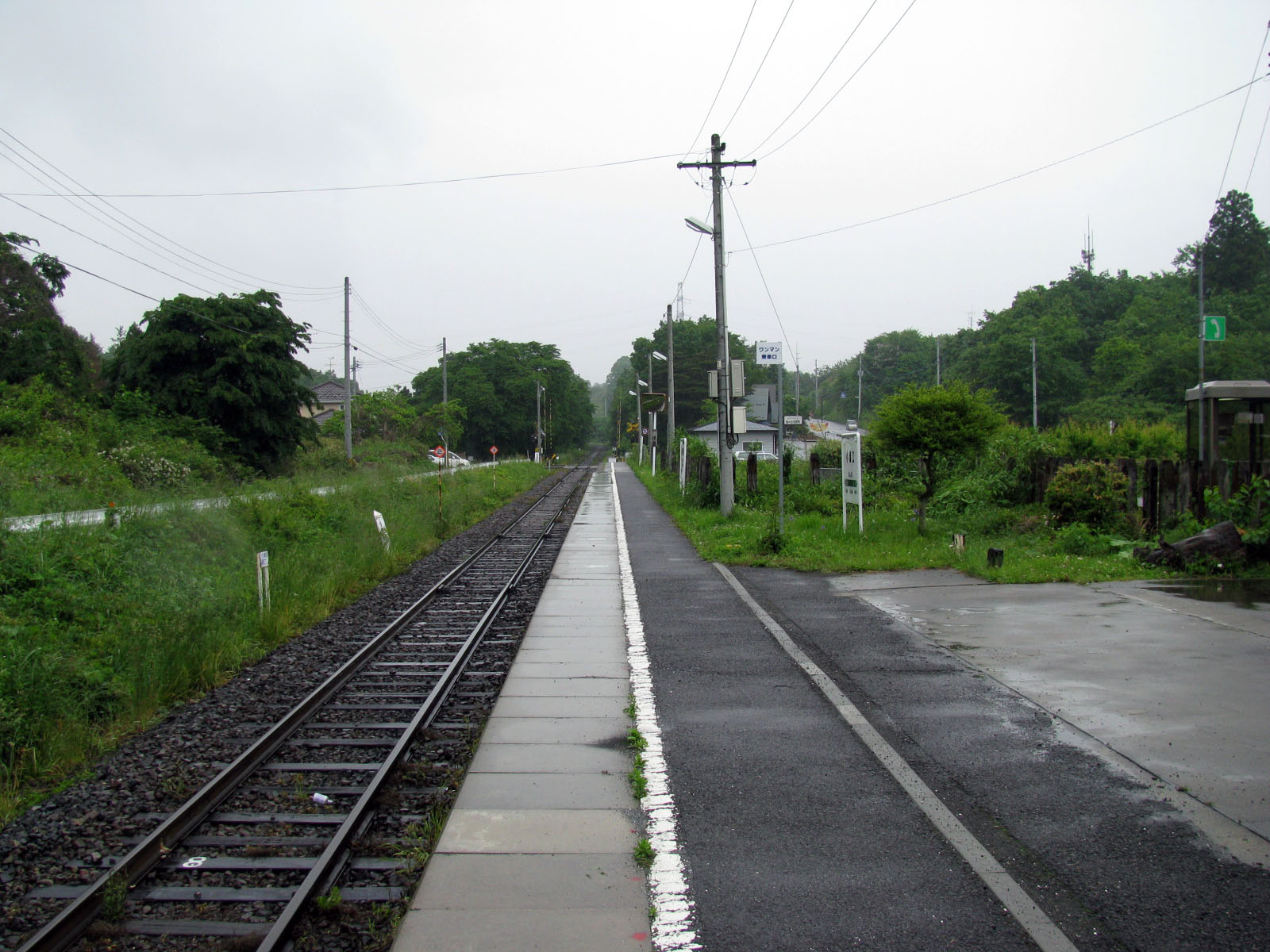 Oshioe Station on Suigun Line